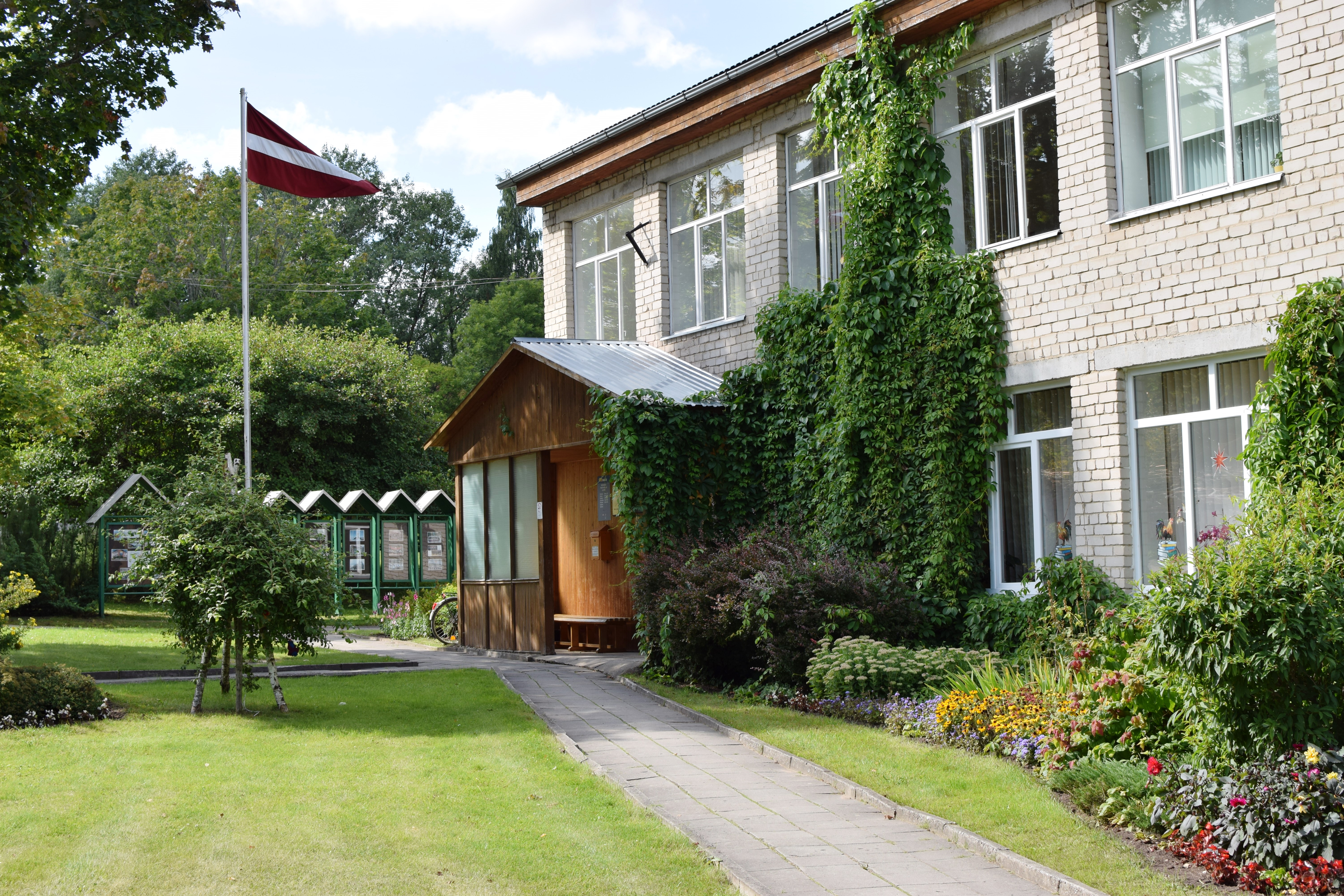 Saldus Municipality